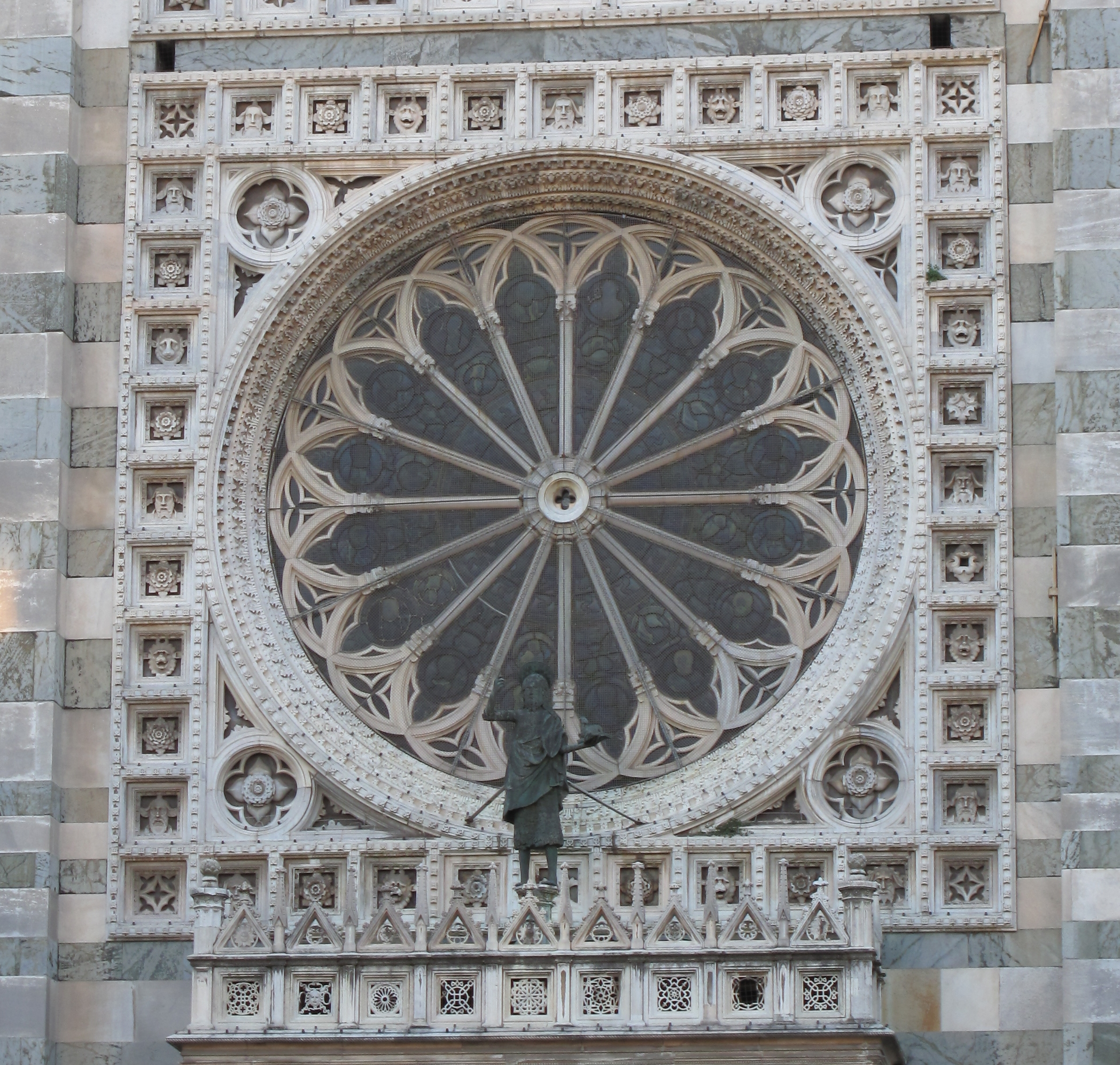 Front Detail of Duomo Cathedral in Monza (Milan)